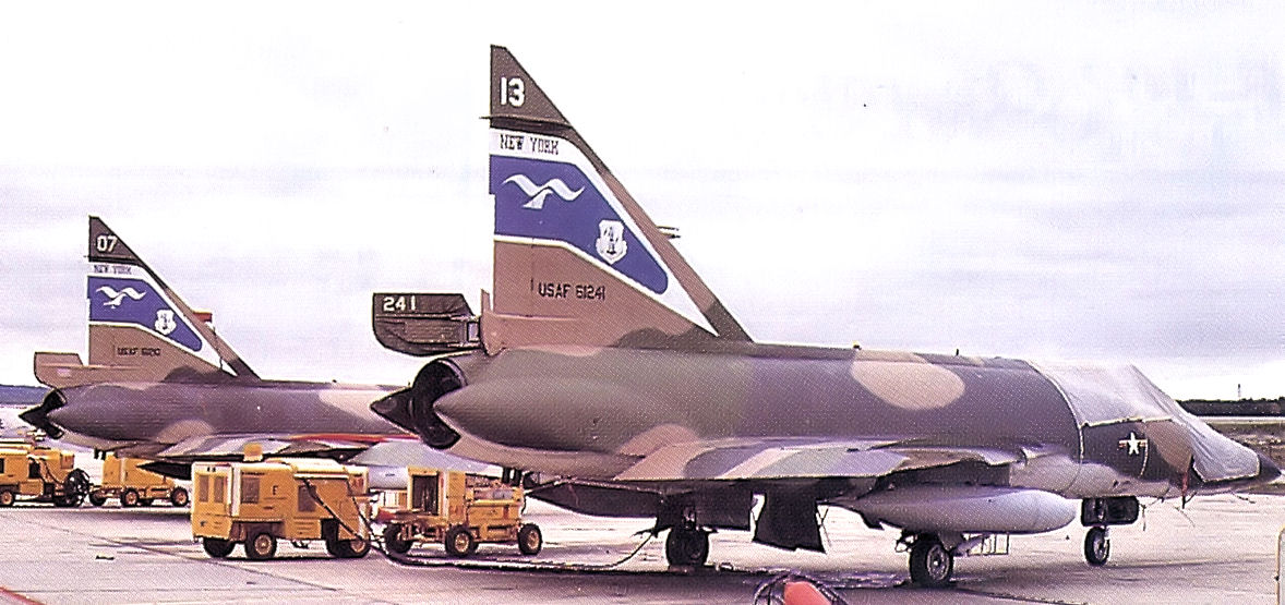 102d Fighter-Interceptor Squadron - Convair F-102A-70-CO Delta Dagger 56-1241. Shown in September 1974 1241 was retired to MASDC as FJ0342 Oct 16, 1974. Later converted to QF-102A, later to PQM-102B and expended as a target drone